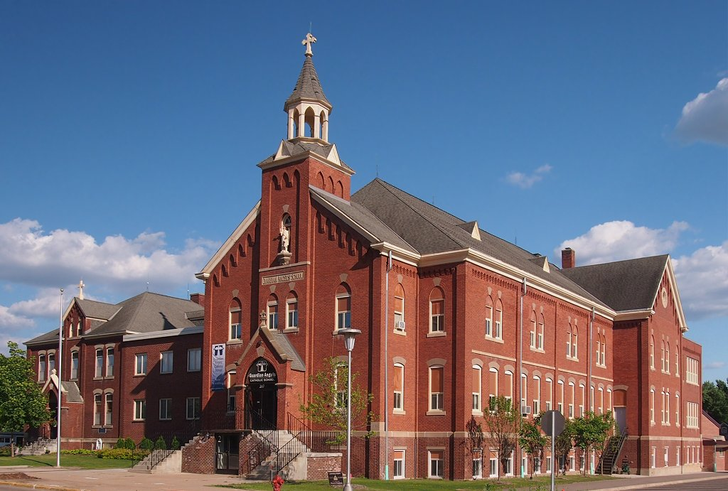 Guardian Angels Catholic School, 217 W 2nd St, Chaska, Minnesota, USA. Viewed from the northwest.